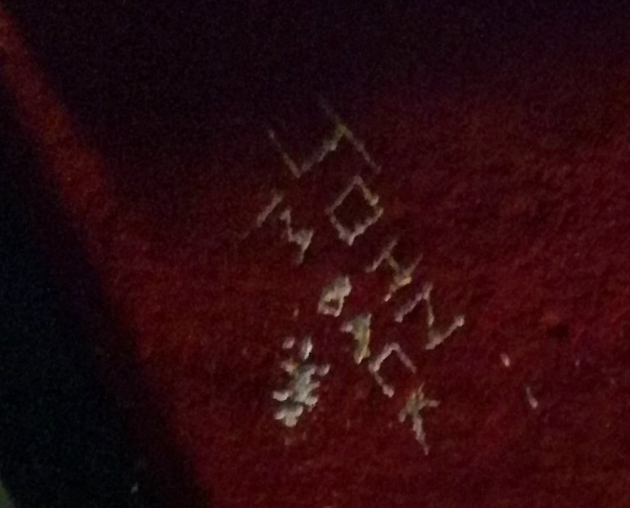 Casbah Coffee Club. "John is back": statement written by John Lennon in 1962, few days before the first presentation of The Beatles in Liverpool, at the Casbah, on December 17th, 1960.